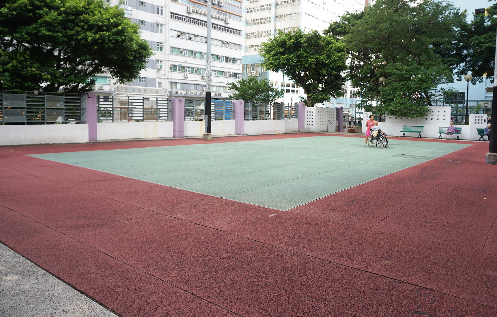 Kwai Chun Court in Kwai Chung, Hong Kong.